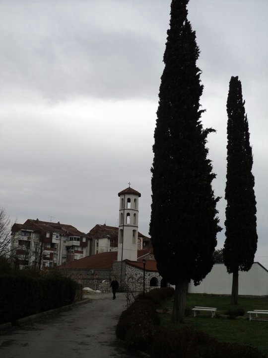 Church of the Ascension of Jesus (Gevgelija)